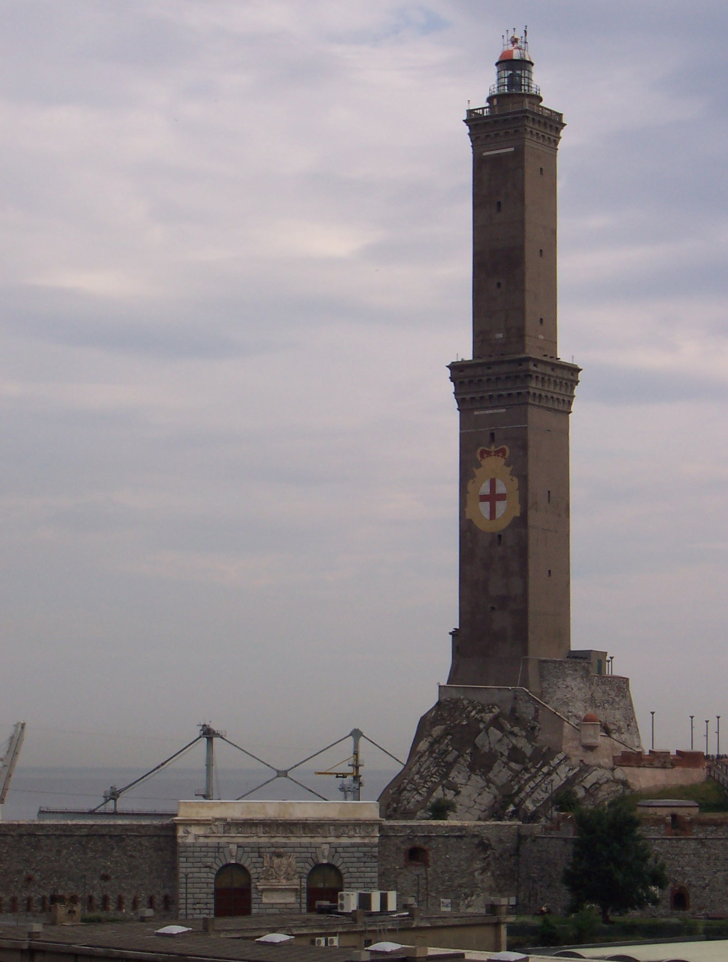 The 'Lanterna' of Genoa, Italy - Lanterna di Genova